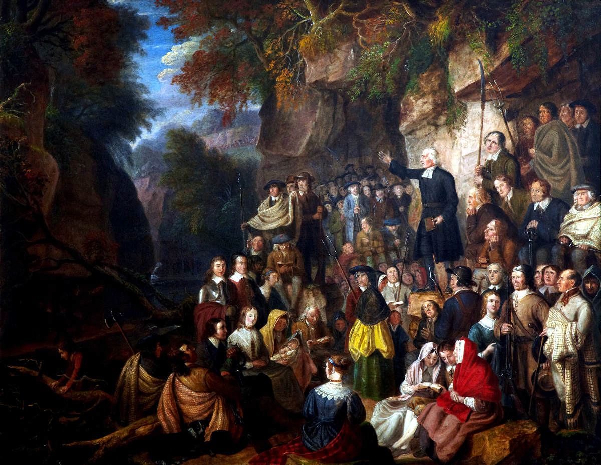 Oil on canvas, 69 x 89.5 cm Collection: The University of Edinburgh Fine Art Collection An "outed" minister in his black frock and white necktie preaches to a large group of countryfolk congregating at the mouth of a cave.